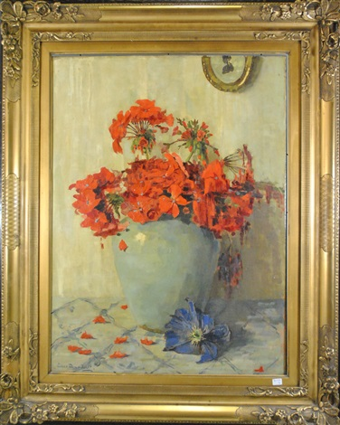 by Lucie van Dam Van Isselt (Dutch, 1871–1949) say 1900